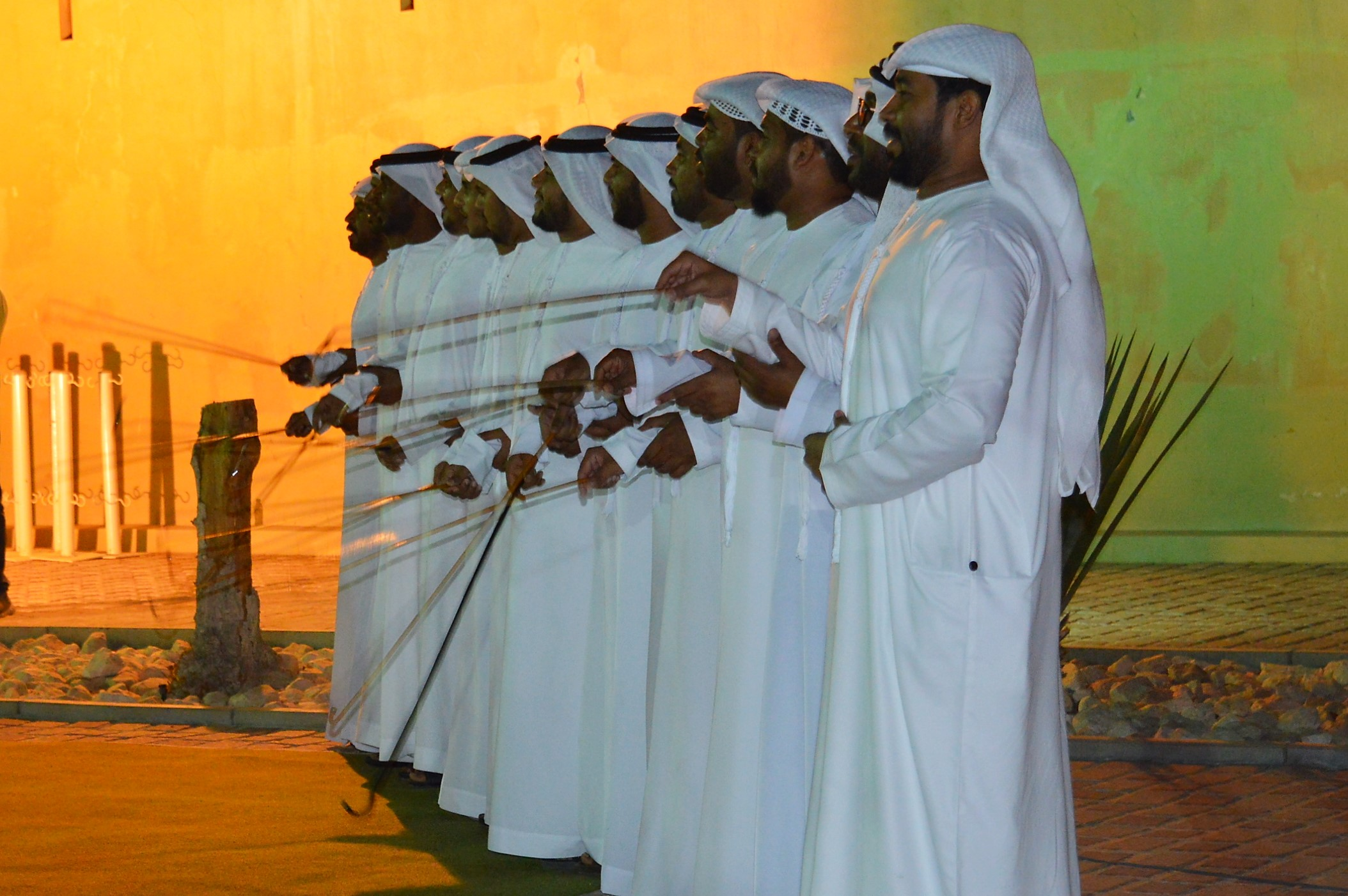 Citizens of the United Arab Emirates perform a traditional Al Ayala 'stick dance' during a cultural performance at Al Ain's Sheikh Zayed Palace Museum